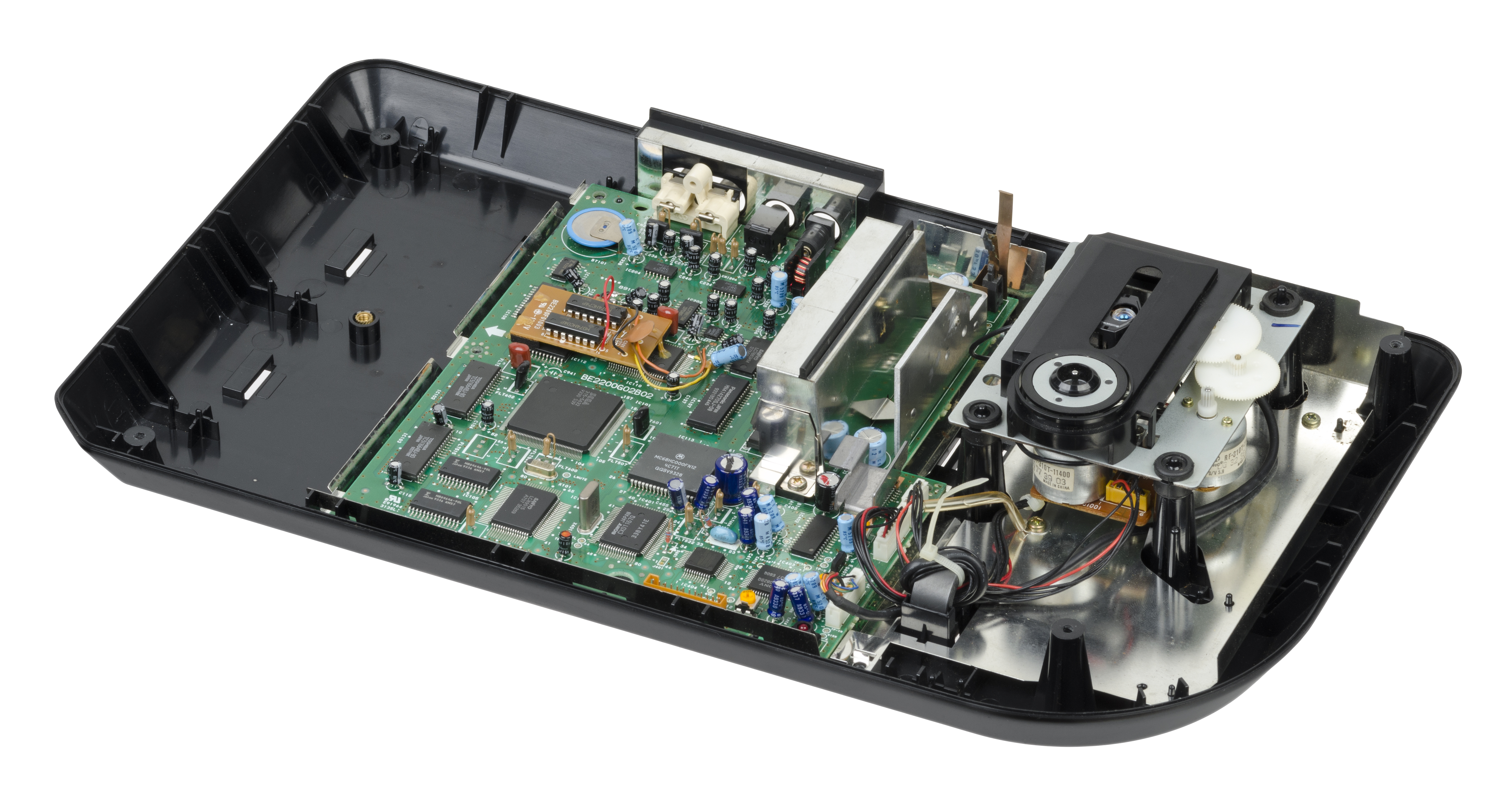 An early revision of the model 2 Sega CD. This is a CD-ROM drive add-on that was released by Sega for its Genesis/Mega Drive video game console in 1991.